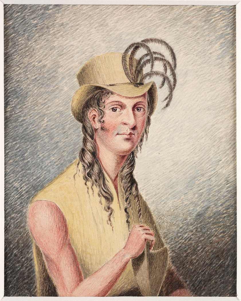 Thursday [Friday] Fletcher October Christian, 1814, J. Shillibeer, State Library of New South Wales DL Pd 701